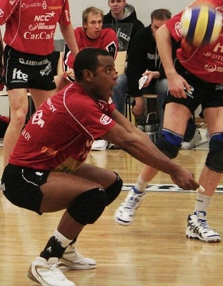 Finland/Kuuba volleyball player Jimmy Hernandez receive serve in Finland league game season 2008